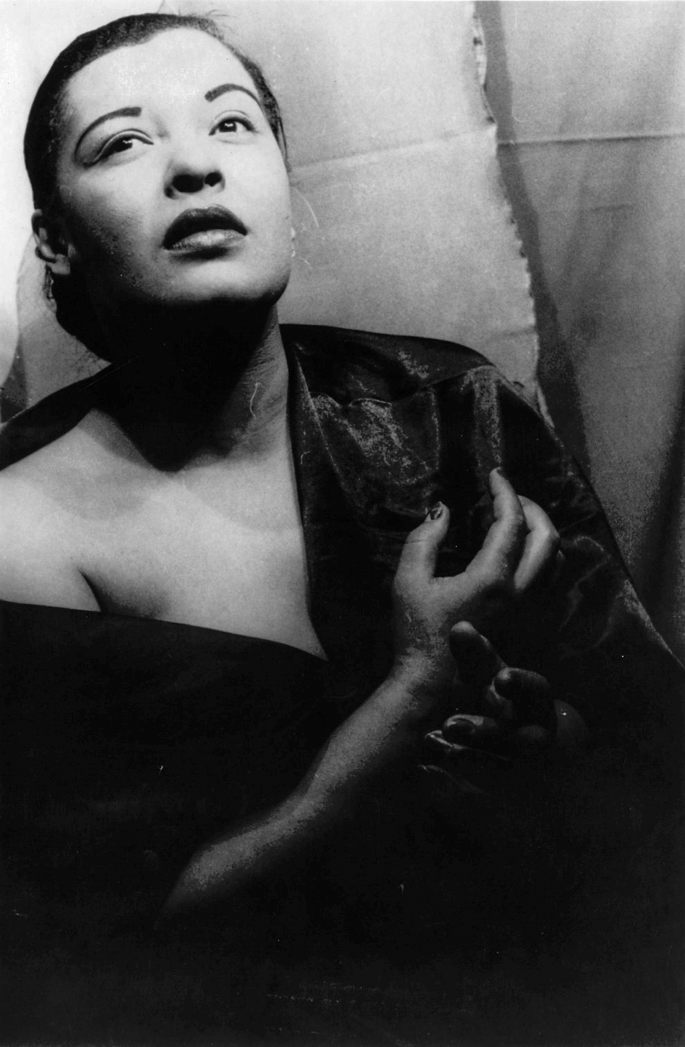 Billie Holiday, 23 March 1949